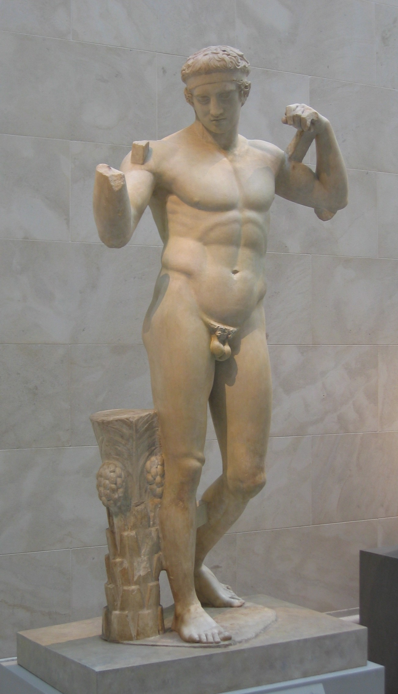 Statue of Diadumenos (athlet tying the fillet of victory around his head), Roman copy (c. 69–96 A.D.) of a Greek bronze statue by Polykleitos, c. 430 B.C., marble (Pentelic). H. 73 in. (185.42 cm). Metropolitan Museum of Art of New York, Department of Greek antiquities, room 6, accession number 25.78.56. See page on the MET site.